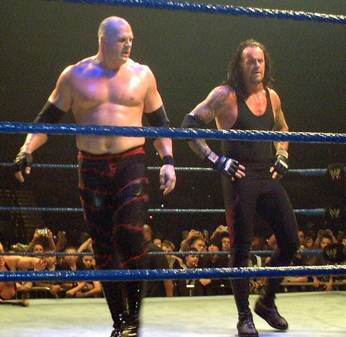 /Kane and The Undertaker